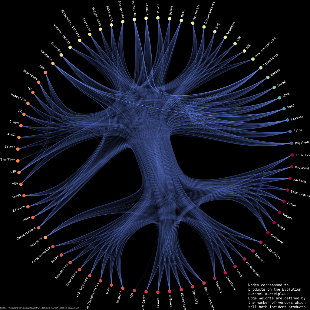 Evolution vendor category relationships. Each node corresponds to a product with edge weights defined by the number of vendors who sell both incident products, e.g. if there are 3 vendors selling both mescaline and 4-AcO-DMT then the graph has an edge with weight 3 between the mescaline and 4-AcO-DMT nodes.